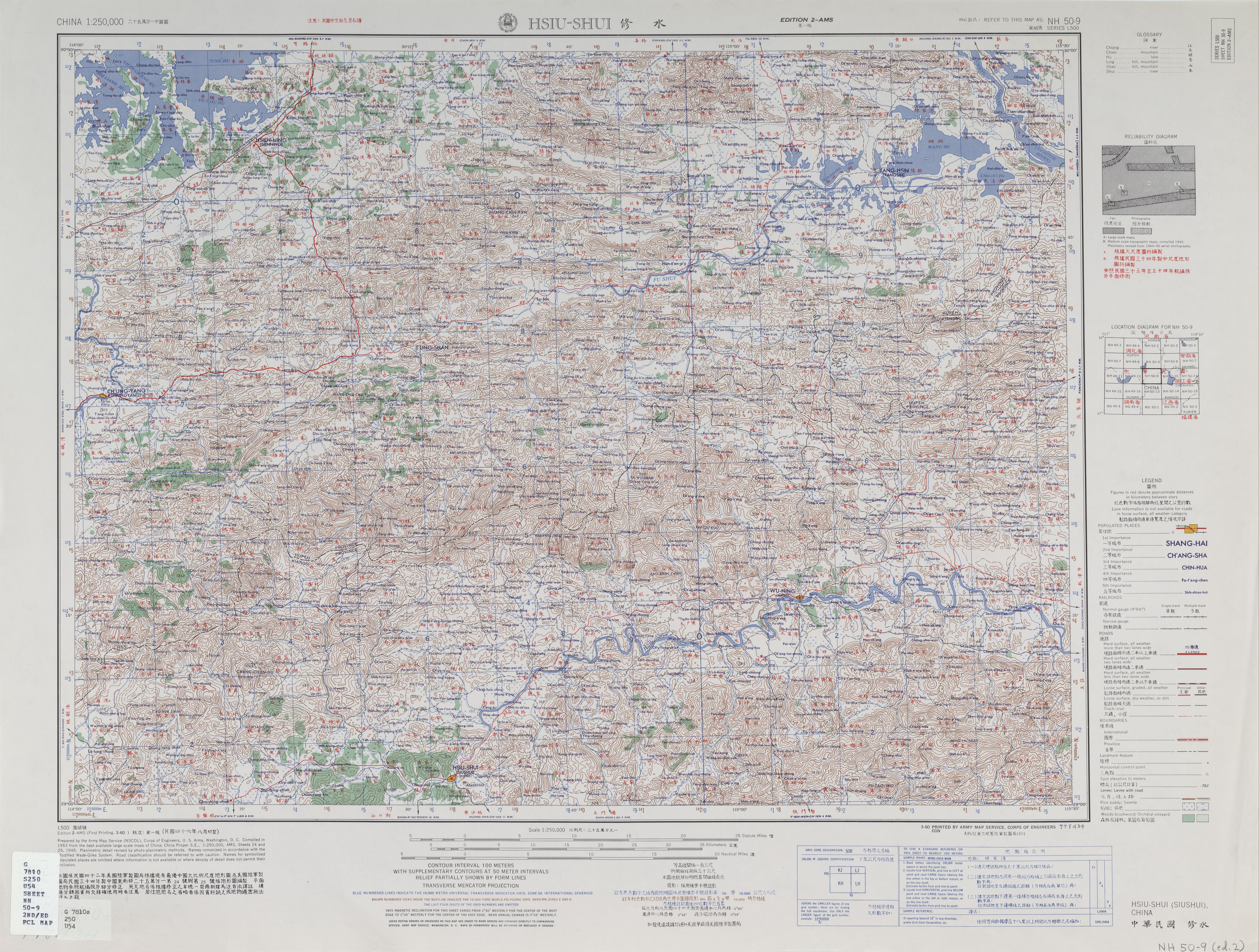 China AMS Topographic Maps series